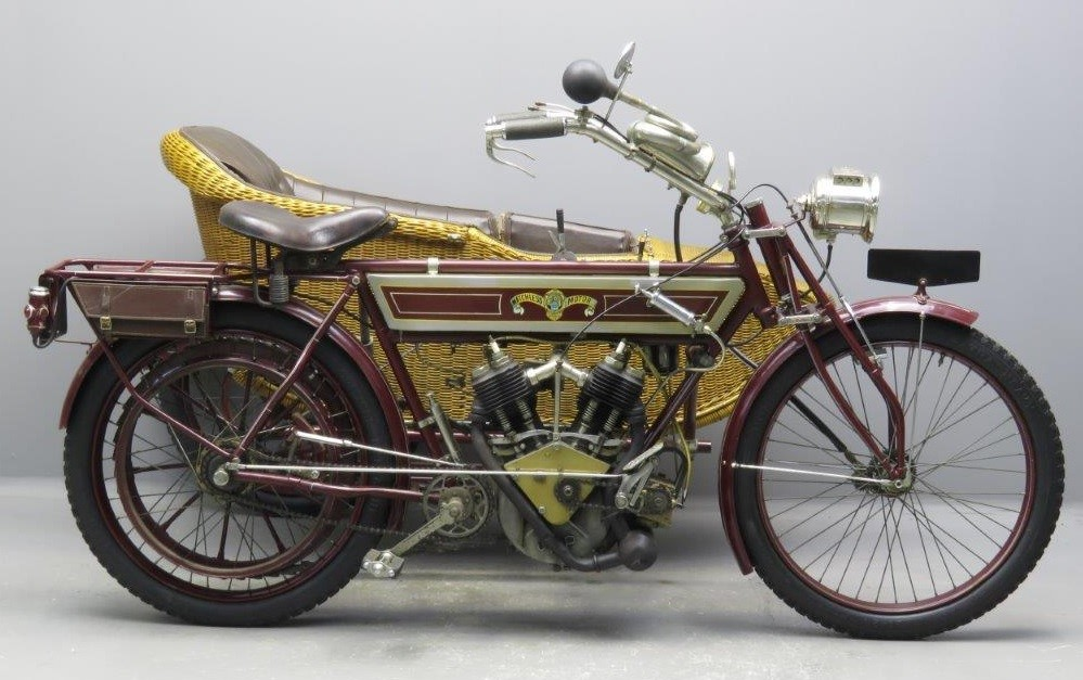 1909 Matchless-JAP 6 HP side valve V-twin